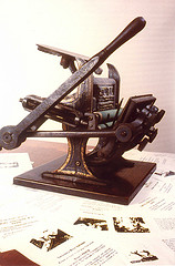 Hand printing press having belonged to Lloyd Osborne and user to print Stevenson's Moral Emblems